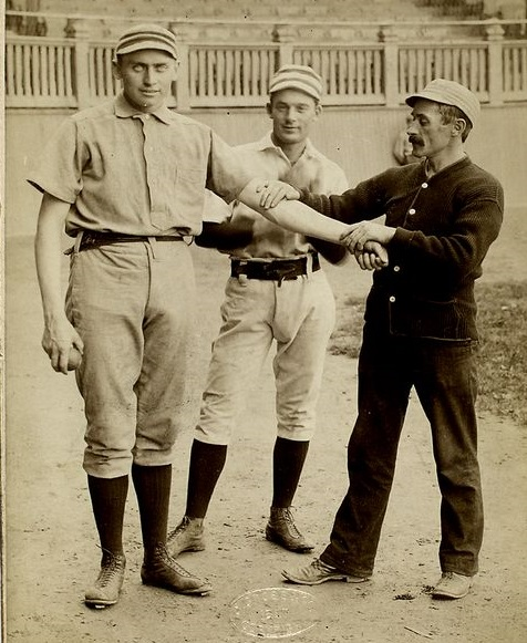 Photograph of pitcher Dan Casey, Charlie Bastian and trainer